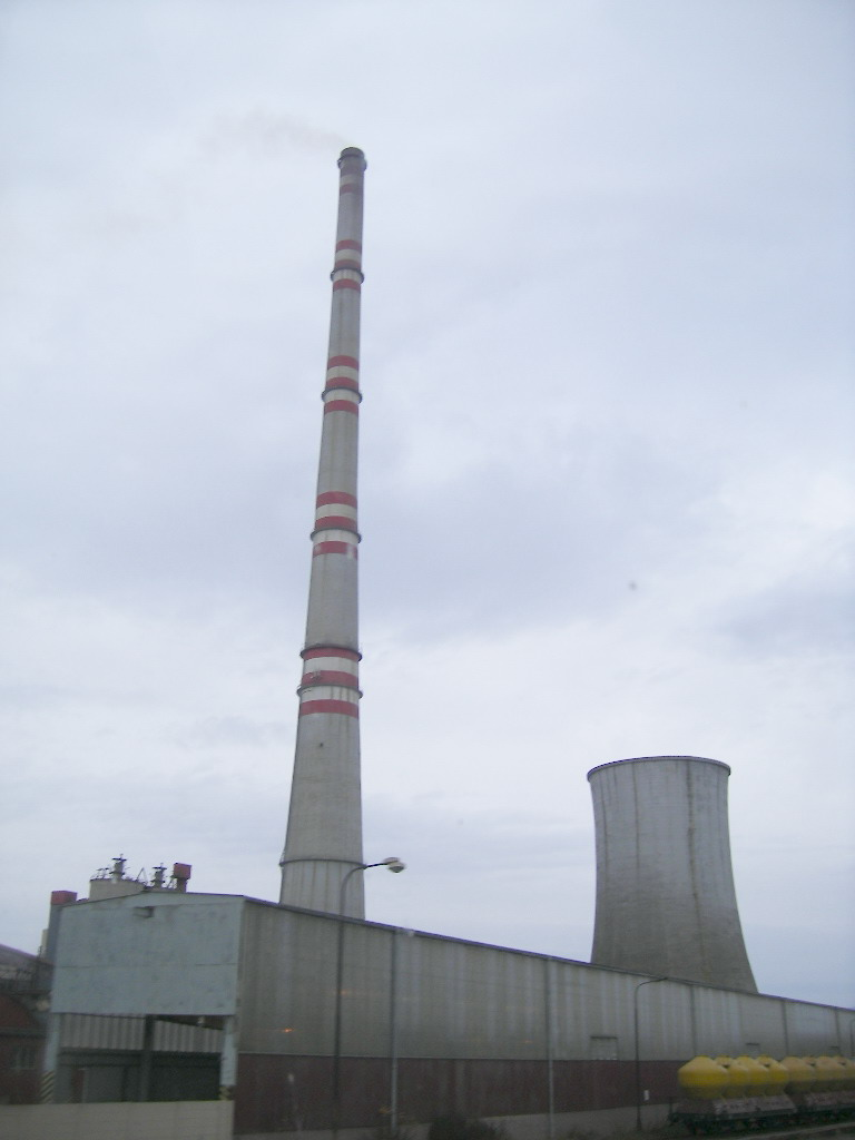 Nováky - chimney of the power plant